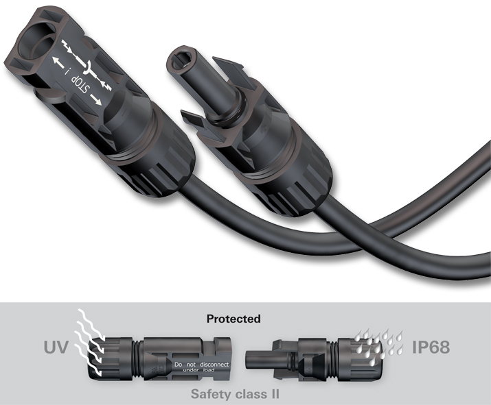 MC4 male & female connector with illustration of environmental influences